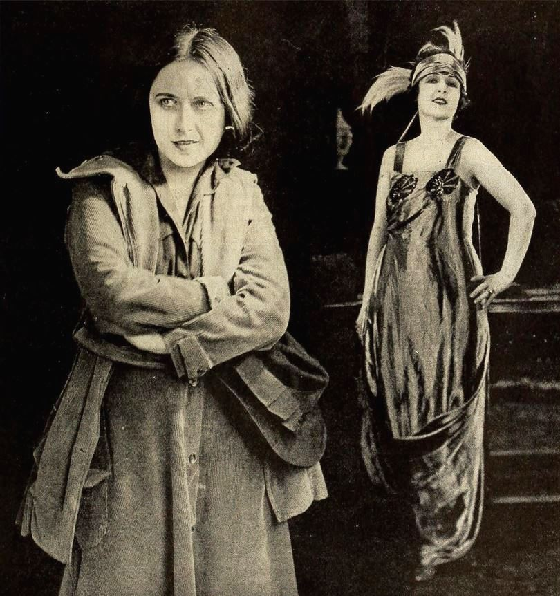 Still for the American film The Right to Happiness (1919) with Dorothy Phillips, who has the two roles shown in the film, on page 21 of the November 1919 Film Fun.